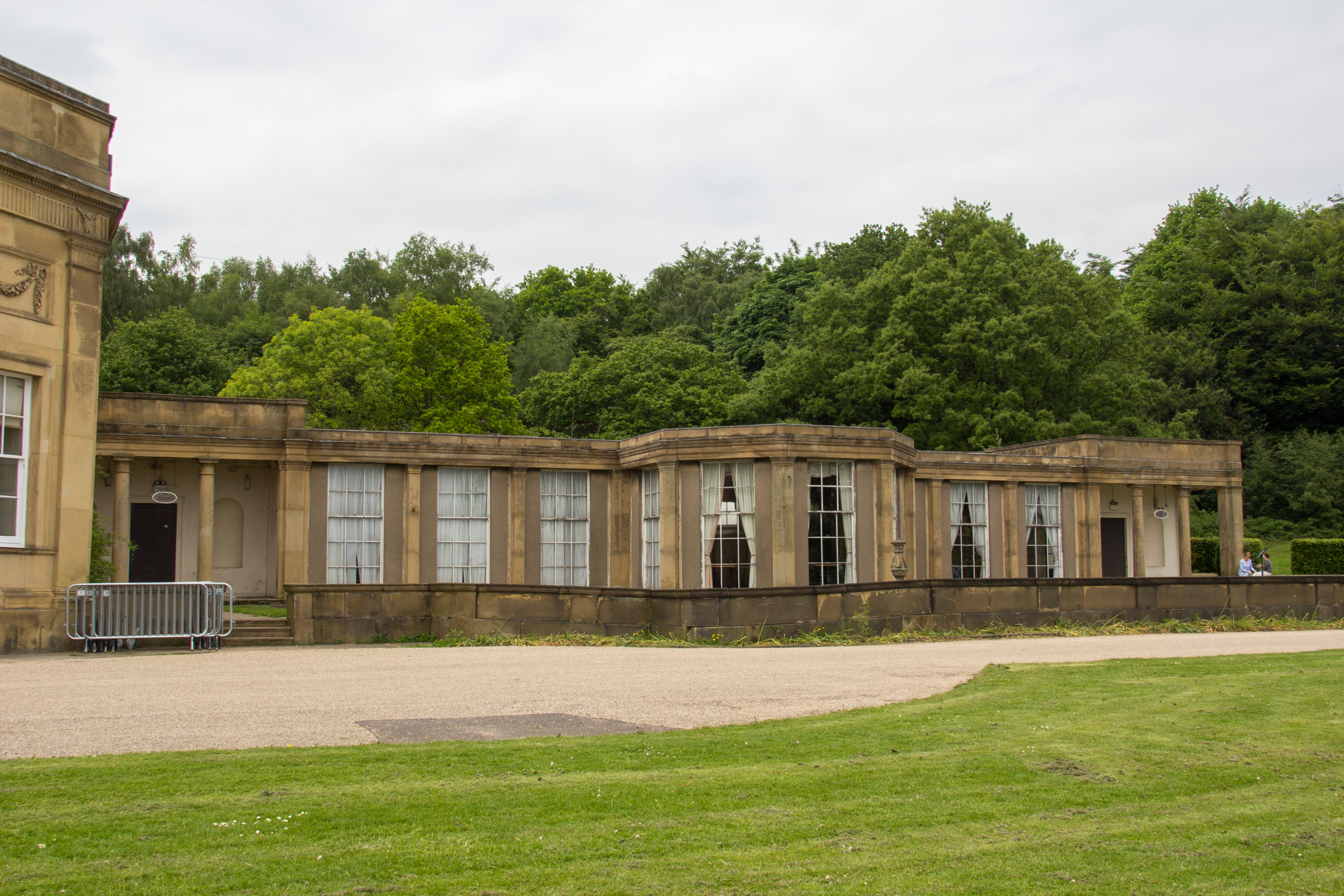 Heaton Hall, Heaton Park, Manchester, United Kingdom